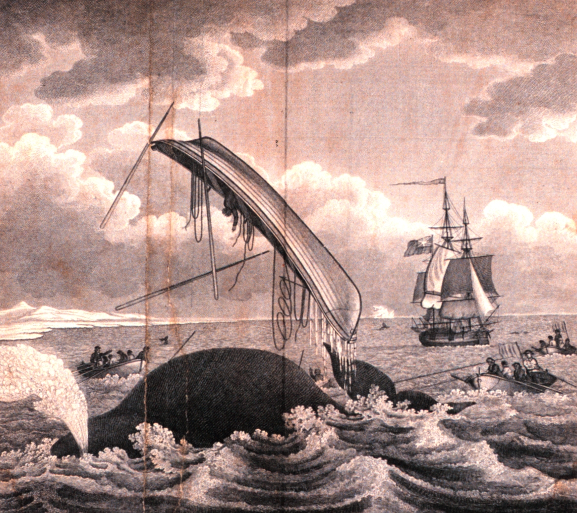 "Dangers of the Whale Fishery". An early representation of a whale boat being upended by the prey. This theme would be common in much 19th Century marine art . In: "An account of the Arctic regions with a history and description of the northern whale-fishery", by W. Scoresby. 1820. P. 588, Vol. II.